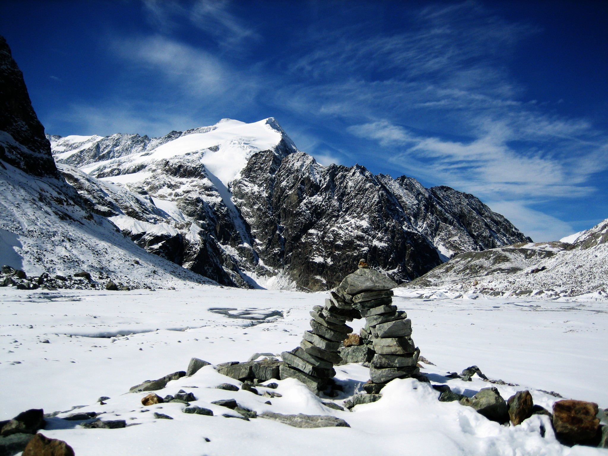 Pigne d'Arolla from east